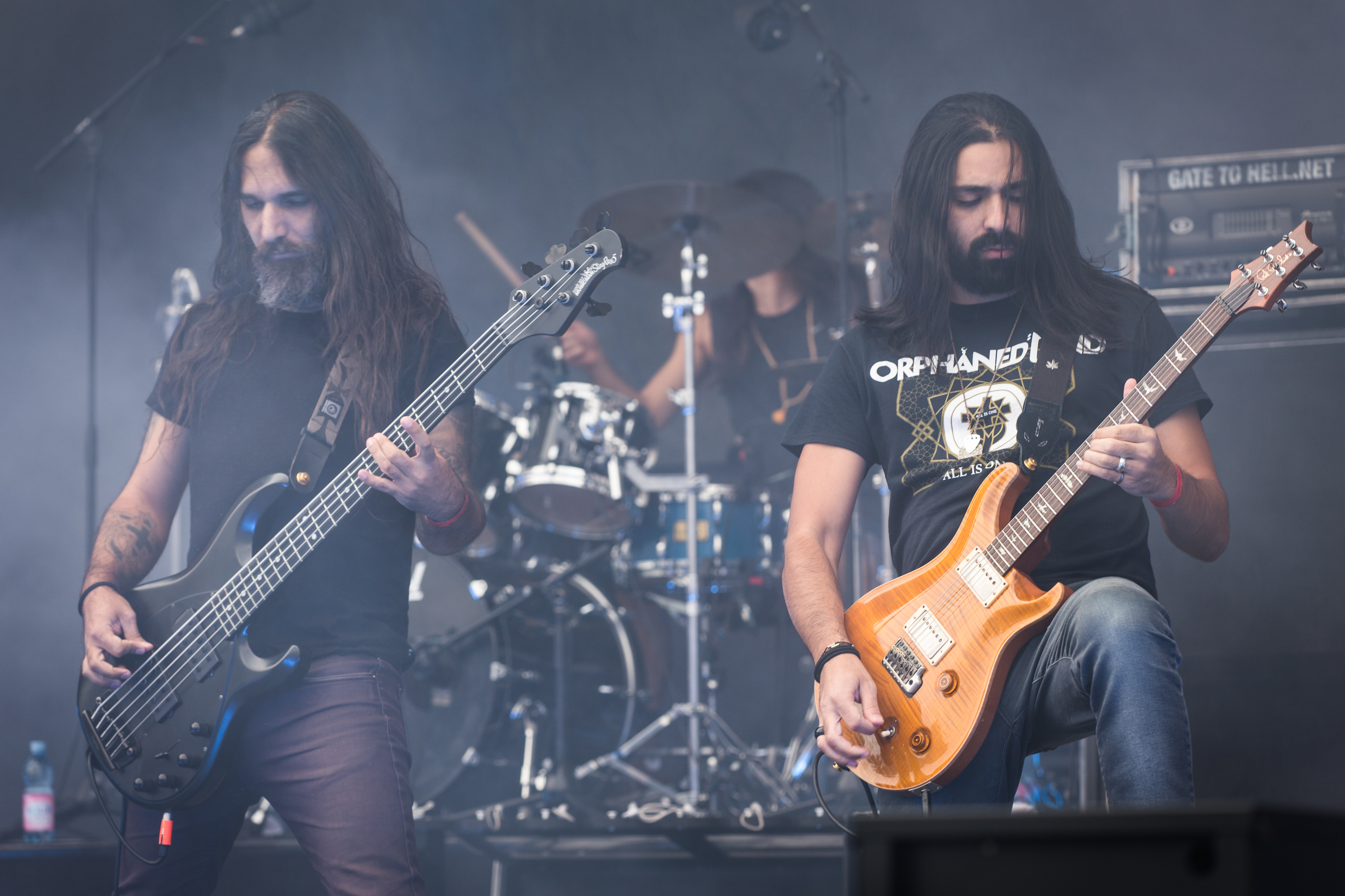 Orphaned Land at the In Extremo aniversary - 20 Wahre Jahre